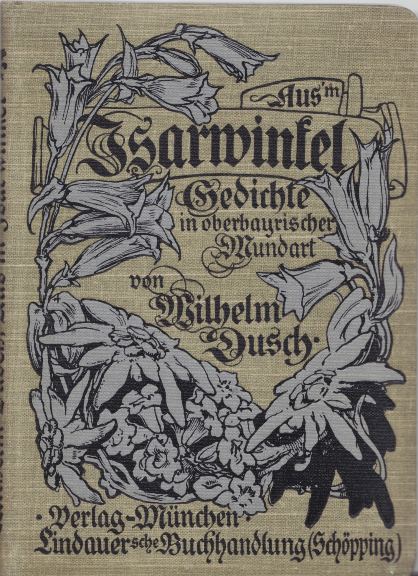 titlepage of Wilhelm Dusch's collection "Isarwinkel"